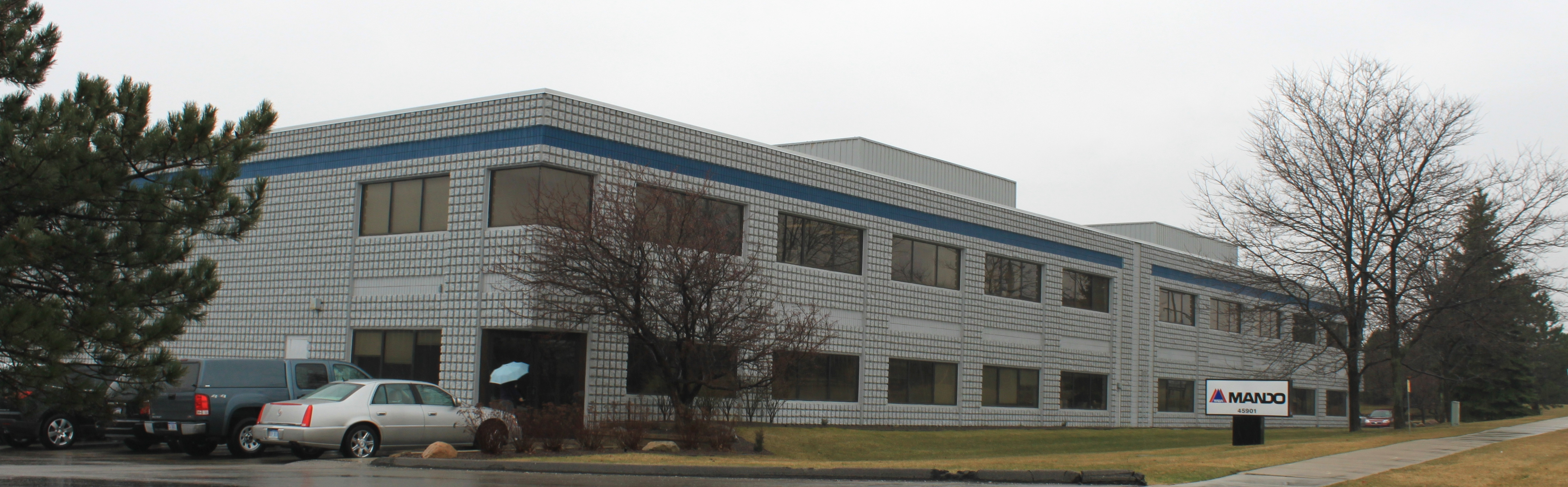 Mando America office, 45901 Five Mile Road, Plymouth, Michigan